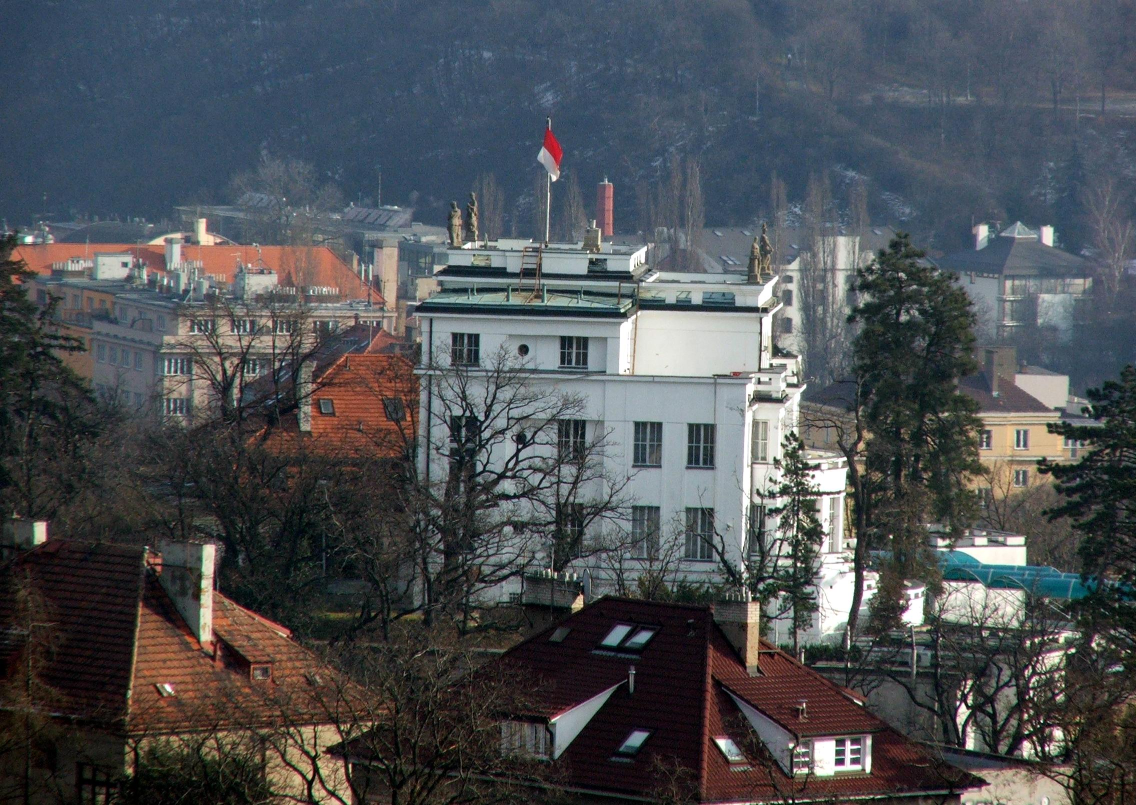 Embassy of Indonesia in Prague 5 - Smíchov, Czechia.